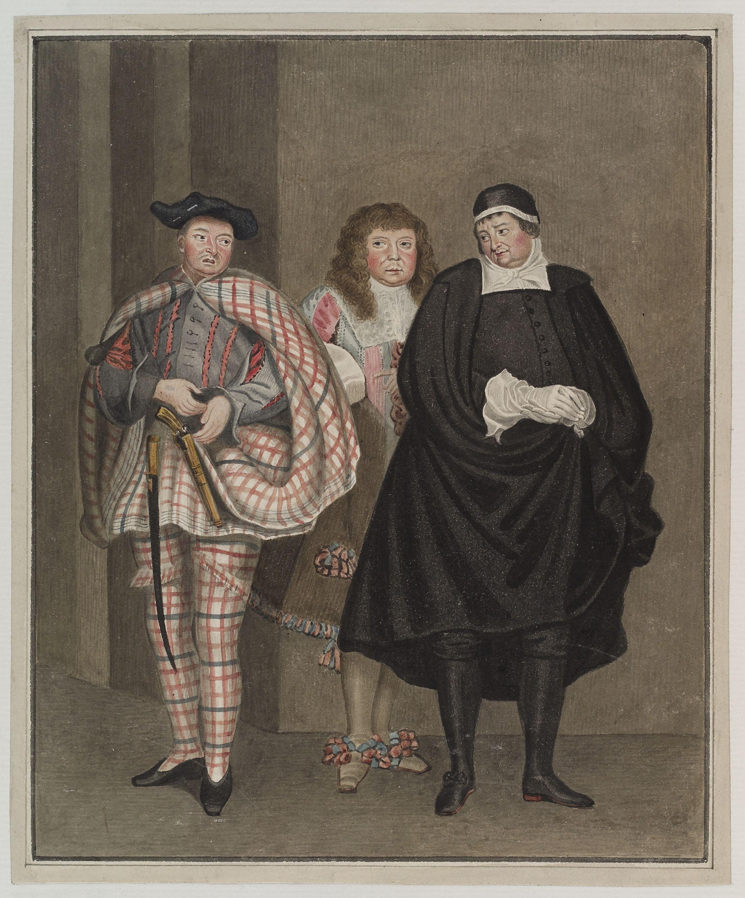 John Lacy, by John Michael Wright (died 1694), given to the National Portrait Gallery, London in 1916. All images in this batch have been confirmed as author died before 1939 according to the official death date listed by the NPG.